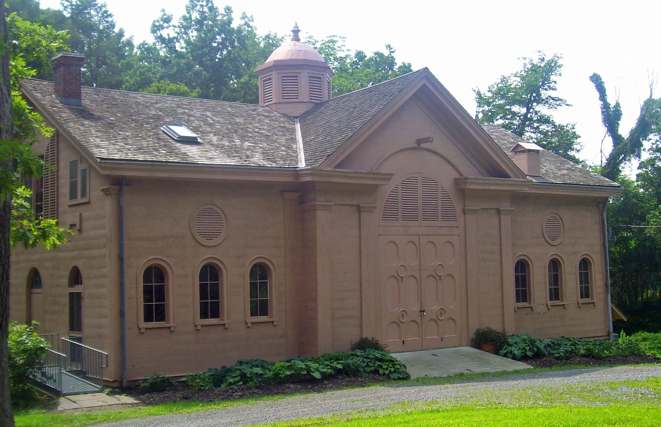 Coach House, designed by Alexander Jackson Davis at Montgomery Place, Annandale, NY, USA